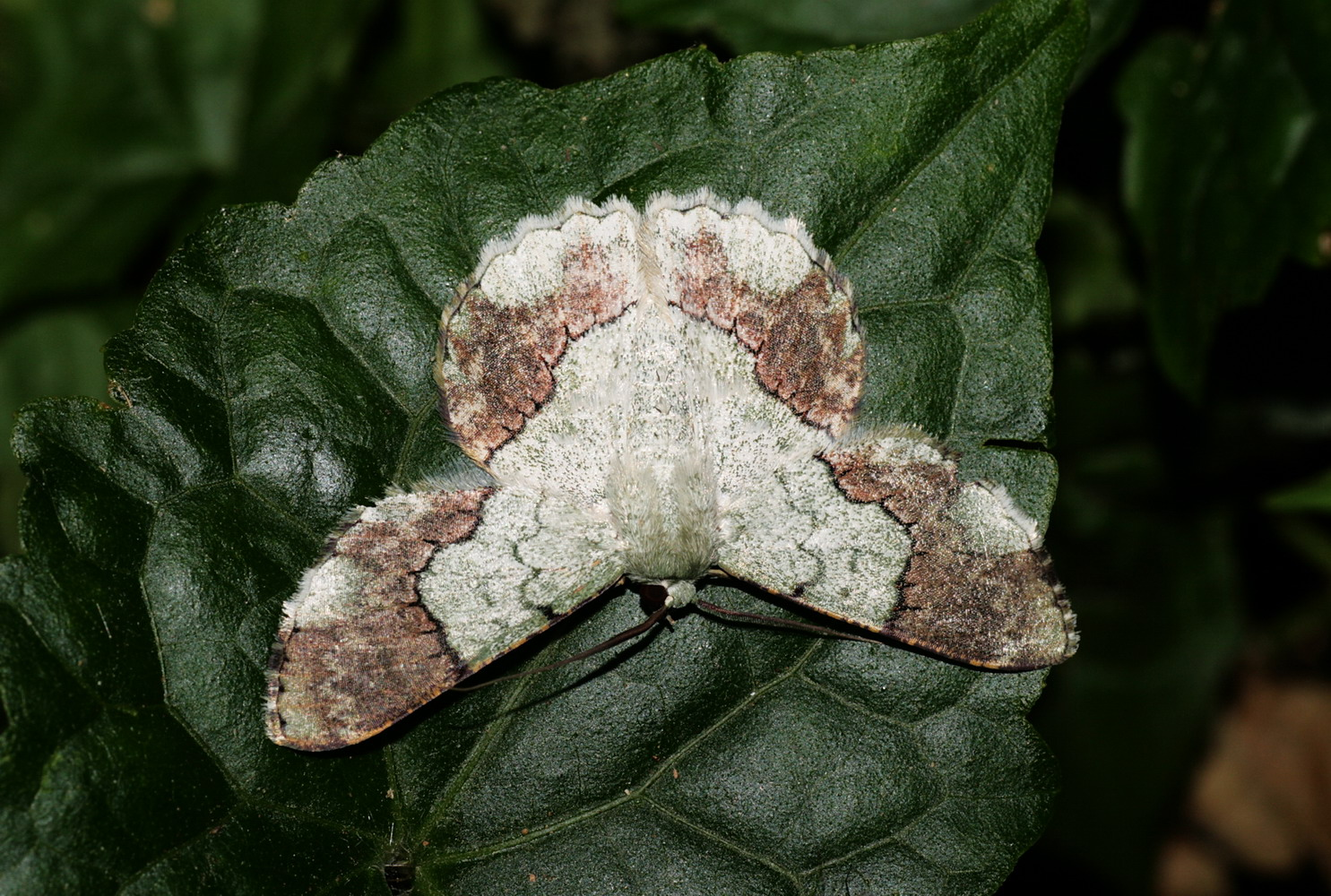 Borneo, Crocker Range National Park April, 2009